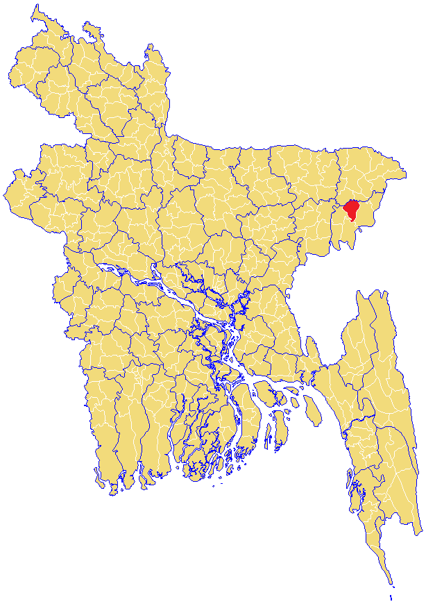 Map of Rajnagar Upazila in Maulvibazar District, Sylhet Division, Bangladesh